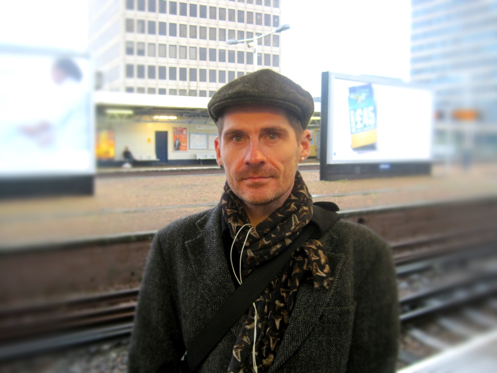 Kevin MacNeil, New Malden, south-west London